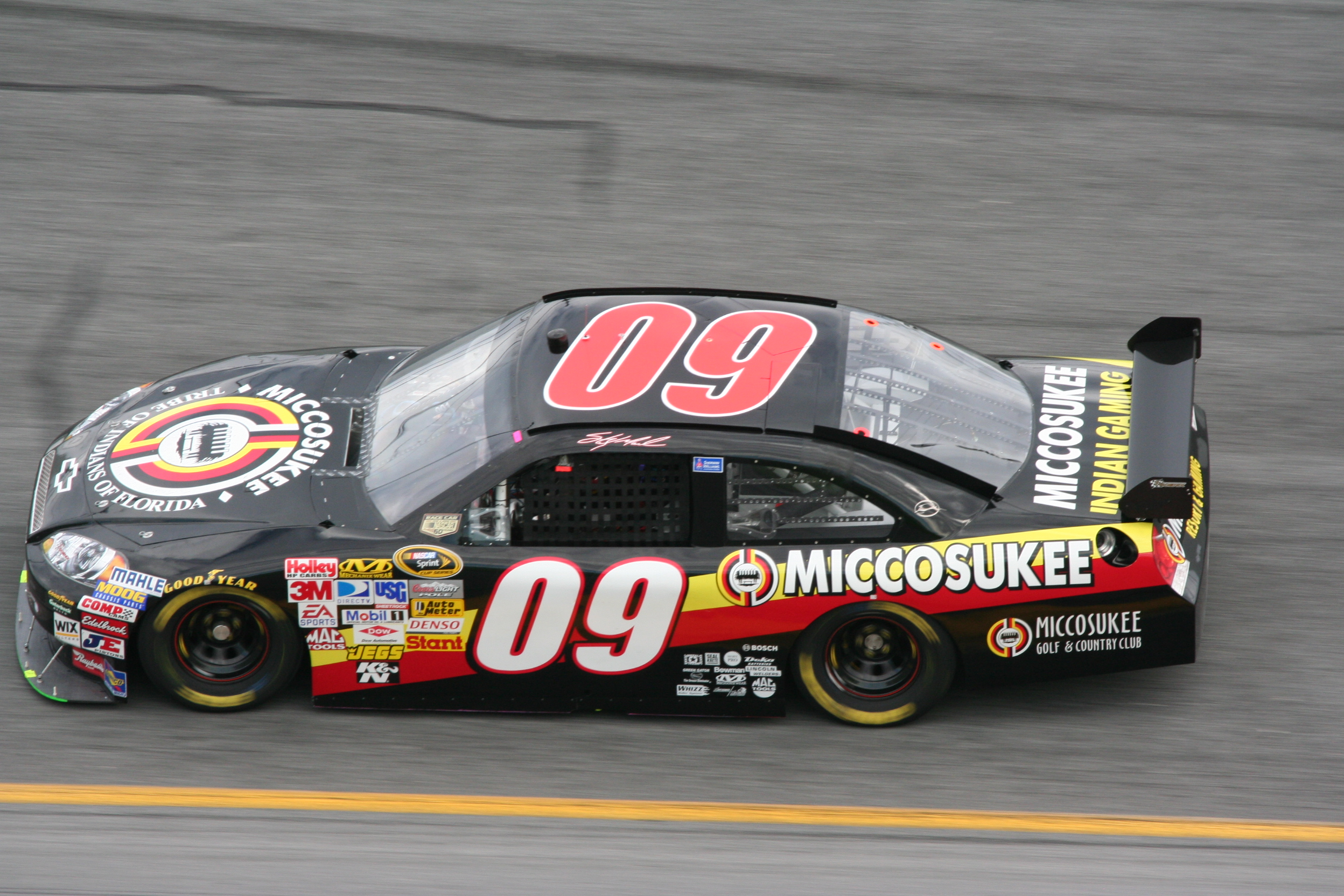 Shot by The Daredevil at Daytona during Speedweeks 2008